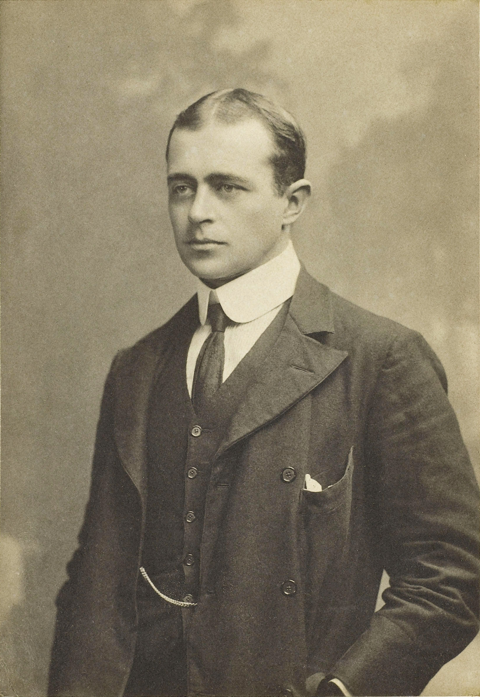 Portrait photograph of Robert Falcon Scott. Photogravure laid on photographer's mount.